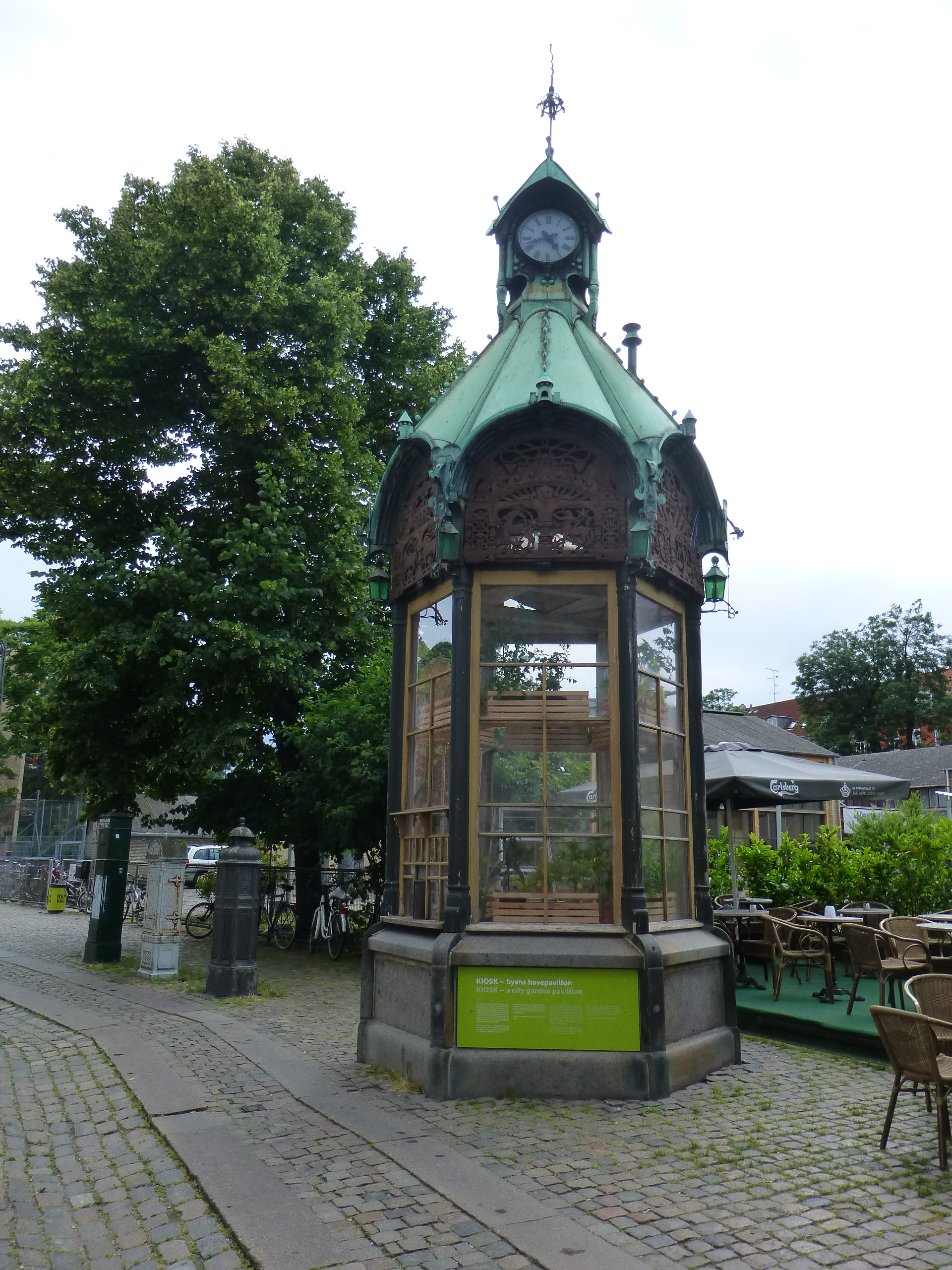 Old telephone kiosk in the museum street in Absalonsgade at Museum of Copenhagen in Vesterbro in Copenhagen.